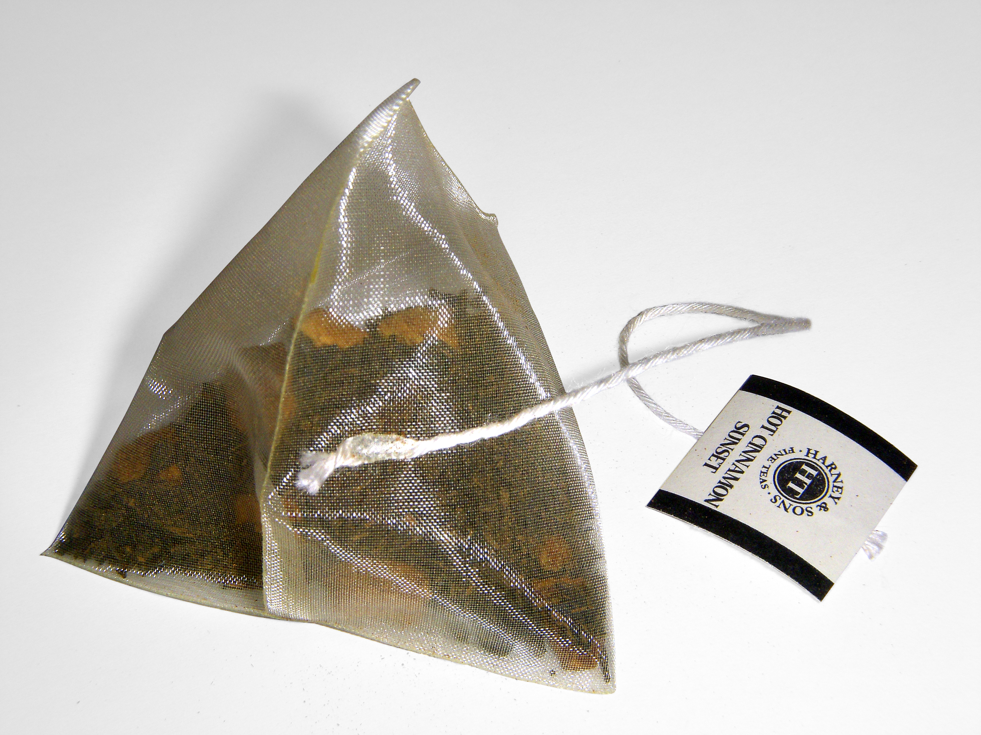 Pyramidal silk tea bag of spiced black tea.